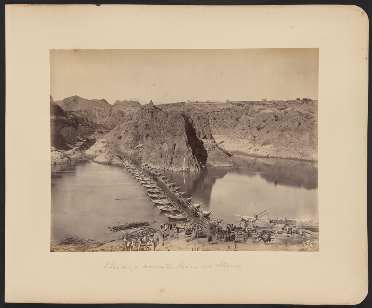 This photograph of a pontoon bridge across the Indus River is from an album of rare historical photographs depicting people and places associated with the Second Anglo-Afghan War. Pontoon bridges such as this one, formed from boats lashed together by various materials, were easily assembled and disassembled. This pontoon bridge was built near the town of Attock in Punjab Province, in present-day Pakistan, and likely was used by the British Army to ferry supplies and troops across the Indus. Laborers, fishermen, travelers, soldiers, and pack animals are seen in the foreground. Attock itself is visible on the plateau in the background at the far right. The Second Anglo-Afghan War began in November 1878 when Great Britain, fearful of what it saw as growing Russian influence in Afghanistan, invaded the country from British India. The first phase of the war ended in May 1879 with the Treaty of Gandamak, which permitted the Afghans to maintain internal sovereignty but forced them to cede control over their foreign policy to the British. Fighting resumed in September 1879, after an anti-British uprising in Kabul, and finally concluded in September 1880 with the decisive Battle of Kandahar. The album includes portraits of British and Afghan leaders and military personnel, portraits of ordinary Afghan people, and depictions of British military camps and activities, structures, landscapes, and cities and towns. The sites shown are all located within the borders of present-day Afghanistan or Pakistan (a part of British India at the time). About a third of the photographs were taken by John Burke (circa 1843–1900), another third by Sir Benjamin Simpson (1831–1923), and the remainder by several other photographers. Some of the photographs are unattributed. The album possibly was compiled by a member of the British Indian government, but this has not been confirmed. How it came to the Library of Congress is not known. Afghan Wars; Bridges; Indus River; Rivers